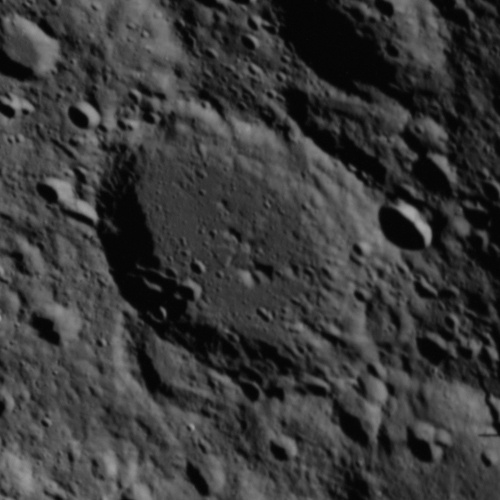 Oblique view of Ostwald, facing northeast, on the far side of the moon.